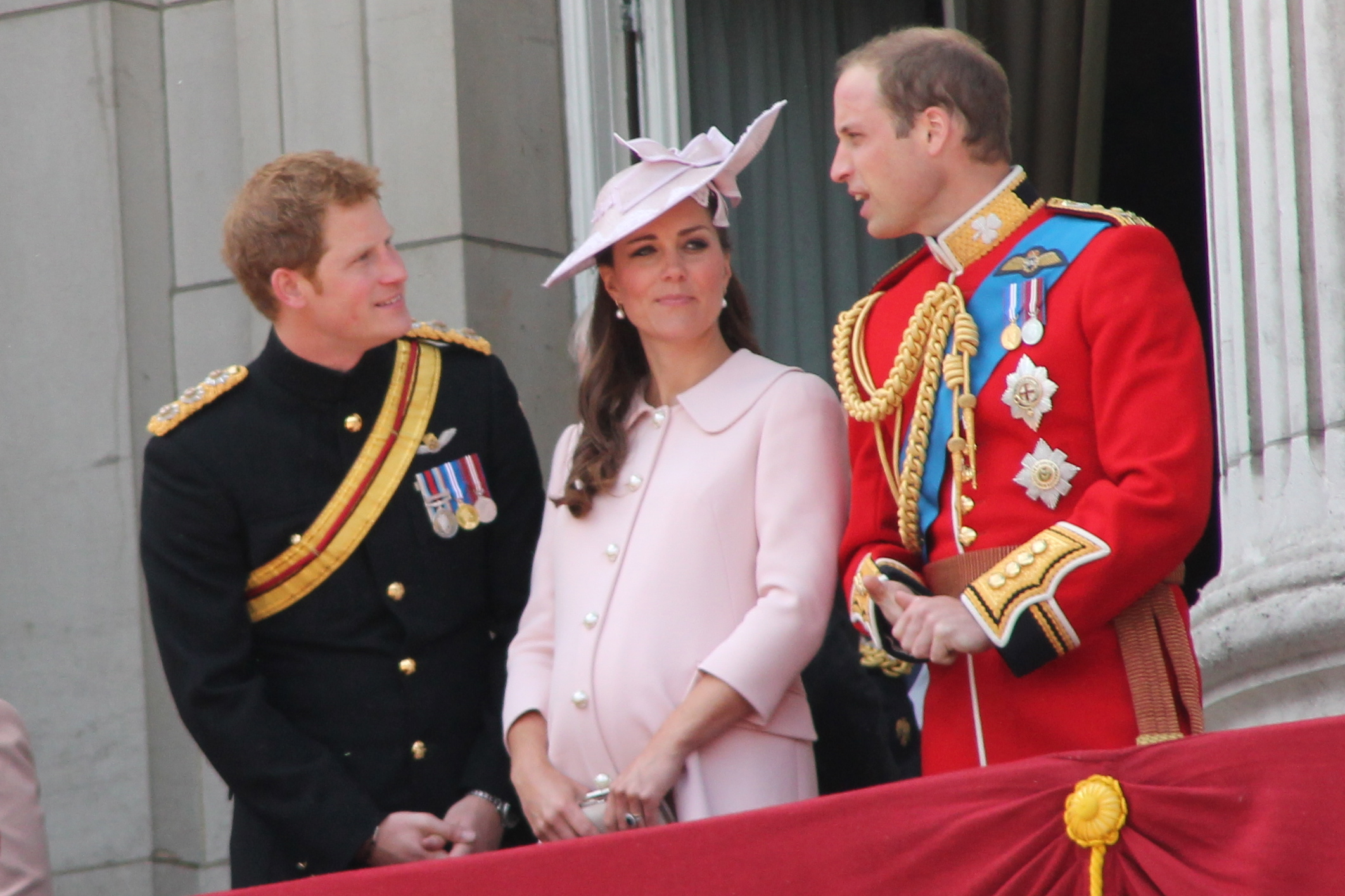 The Duke and Duchess of Cambridge, Prince George of Cambridge, and Prince Harry on the balcony of Buckingham Palace, June 2013